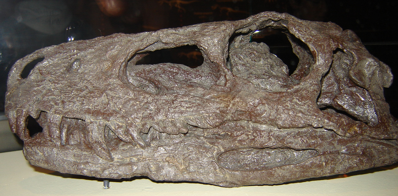 Herrerasaurus (specimen PVSJ 407), one of the earliest dinosaurs, part of the Ischiqualasto fauna, Triassic.